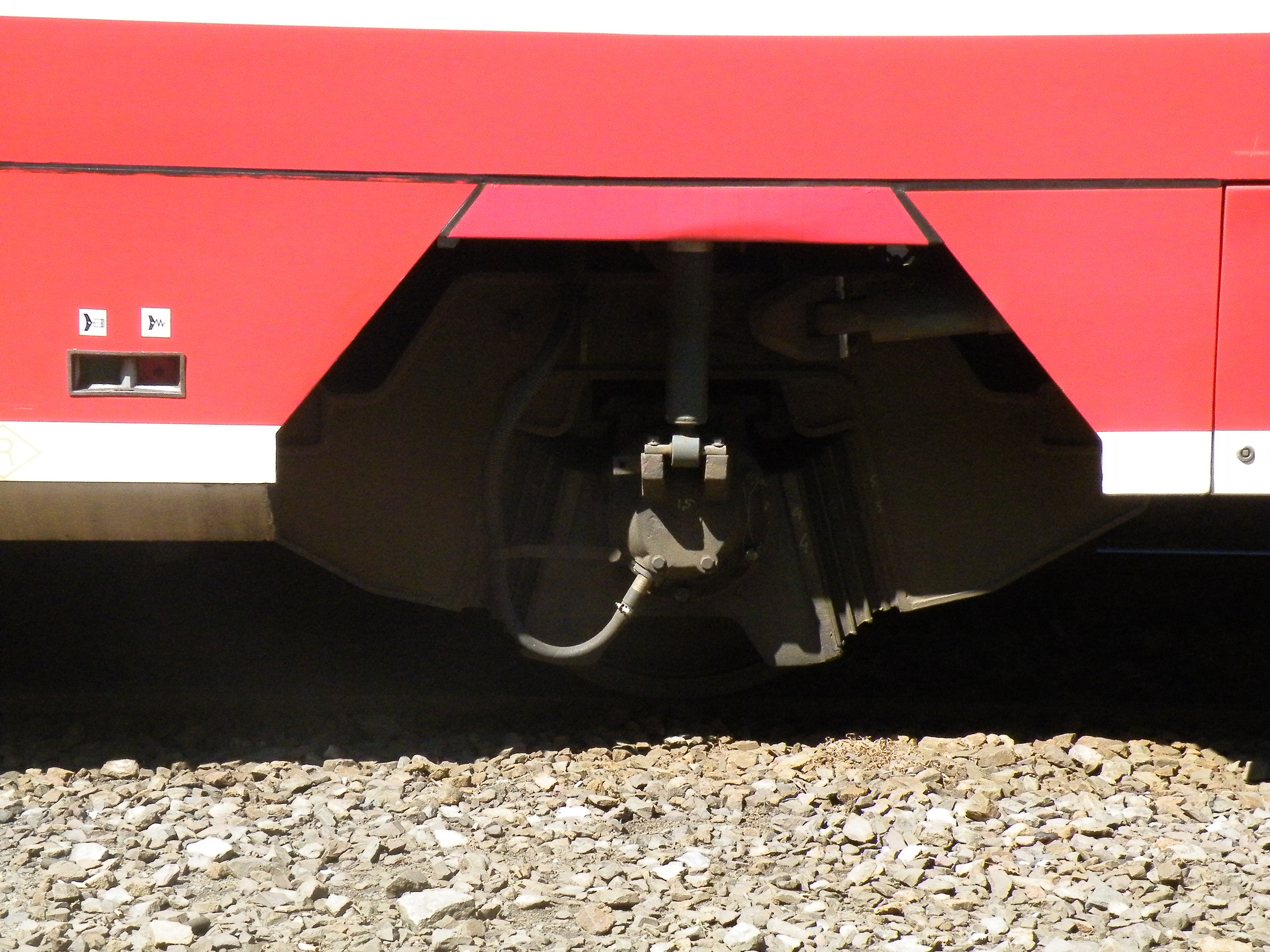 Bogie of railbus PKP class SA105 (ZNTK Poznań RegioTramp)